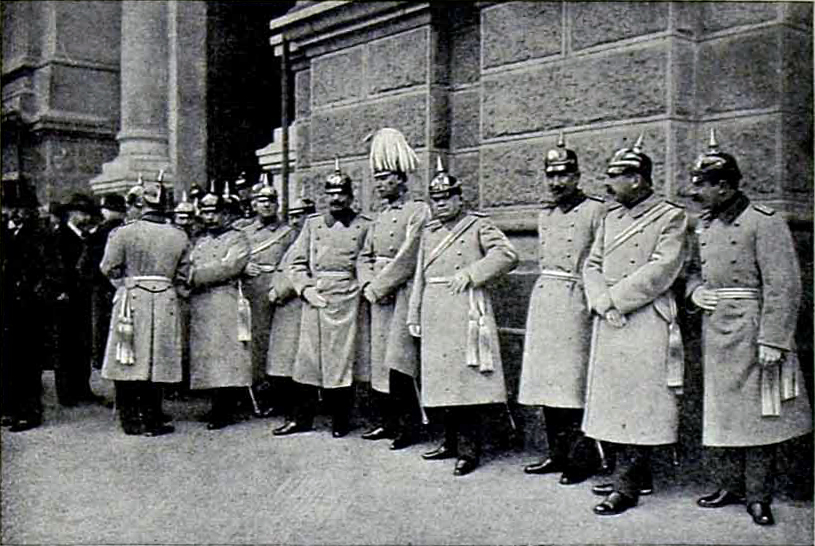 CHILEAN_ OFFICERS-NOT A PRE-WAR GROUP OF PRUSSIANS It was only natural that the Chilean army. tuto:-ed by German oﬂioers, should have been equipped and dressed in Teutonie fashion. but it was disconserting to the visitor to Chile at first to see the native soldiers as perfect reproductions of the German type. The outecome of the Great War. however, is orodueìng modifications of Chilean military dress